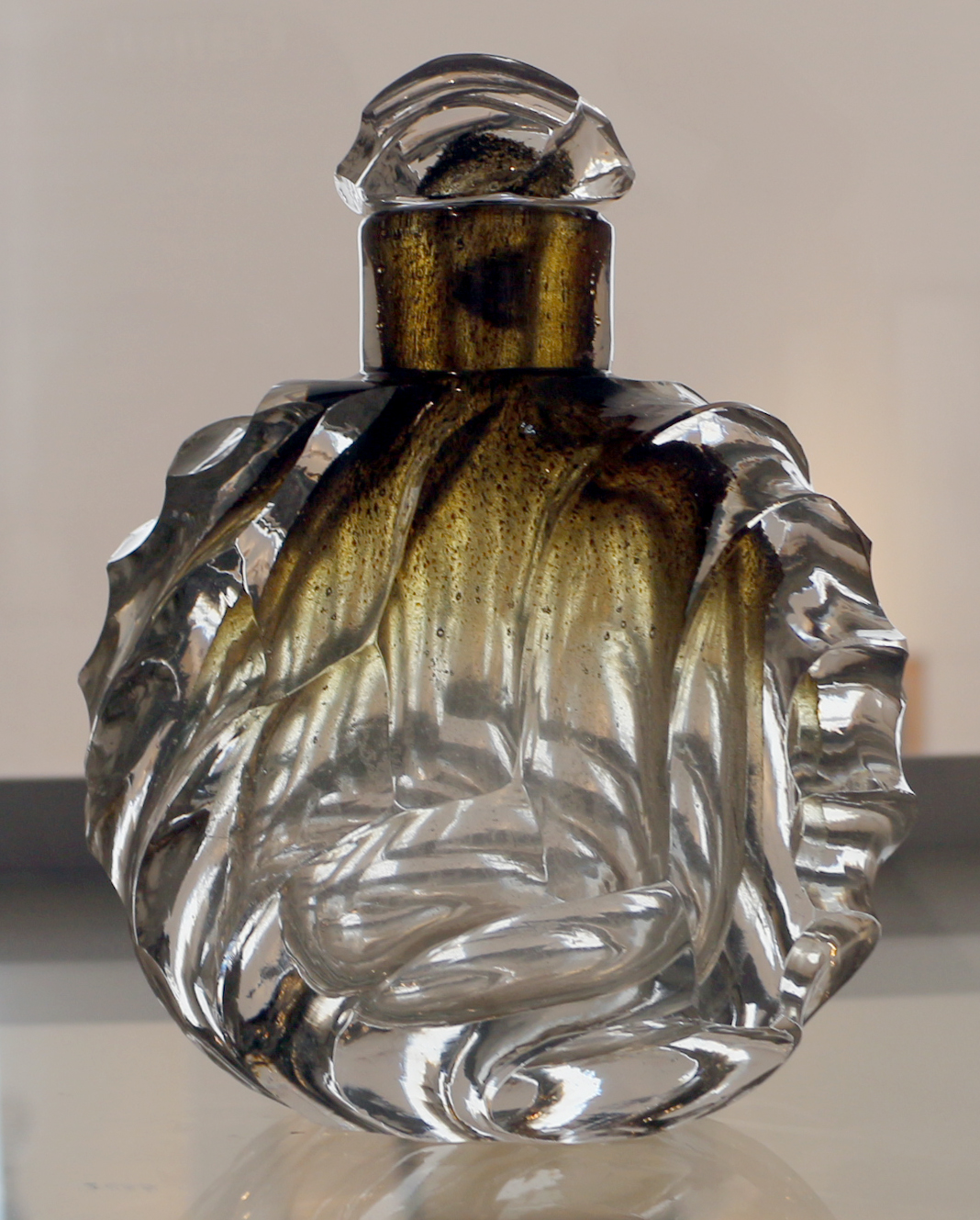 Collections of the Musée d'Art Moderne de la Ville de Paris